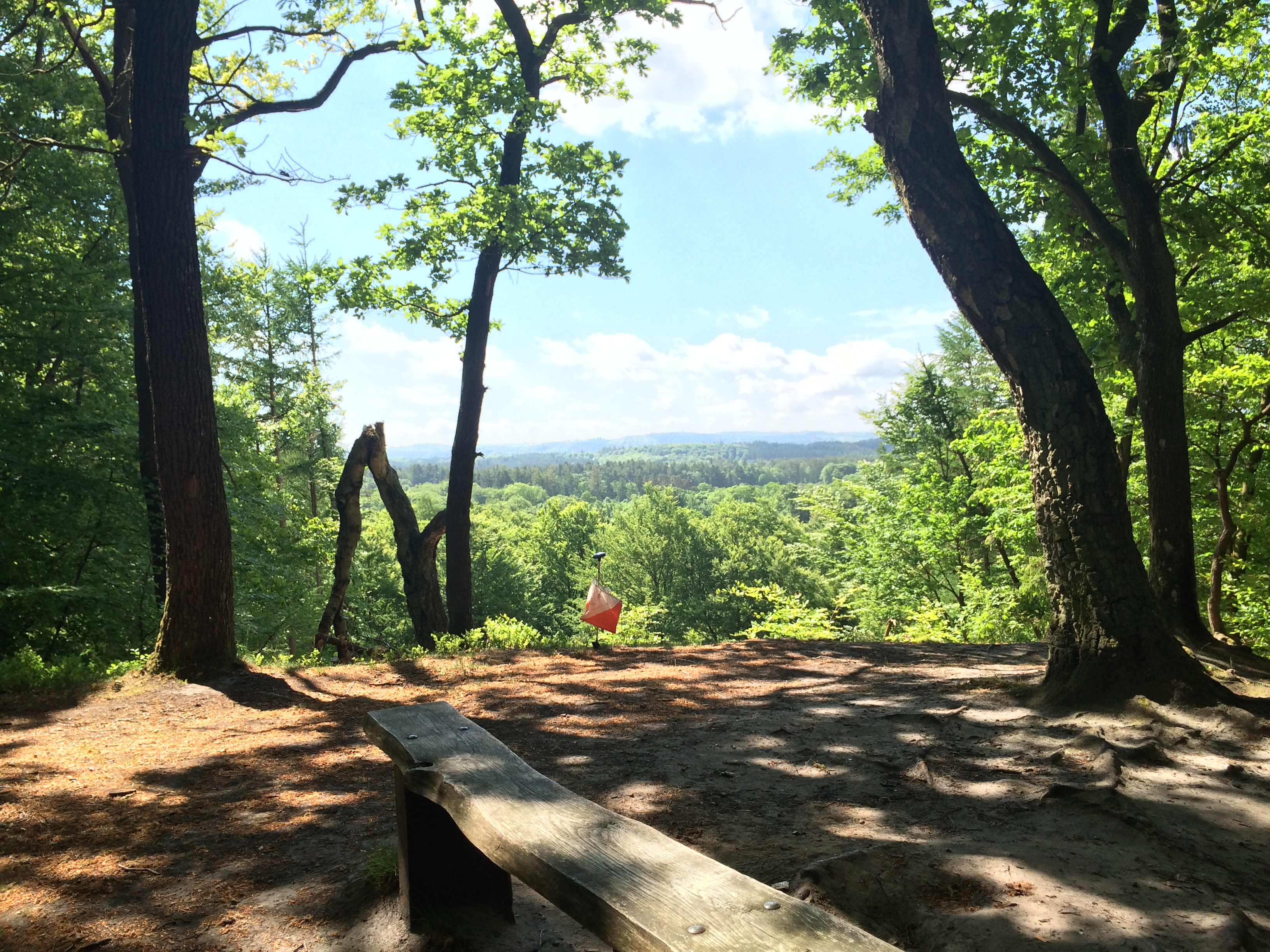 Scenic viewpoint Dronningestolen in Silkeborg, Denmark